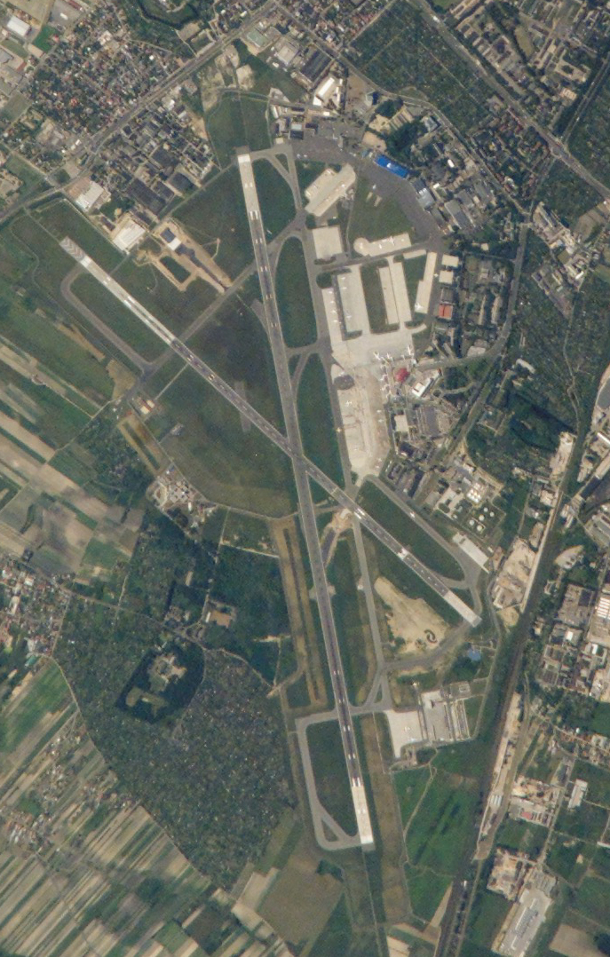 Warsaw Chopin Airport